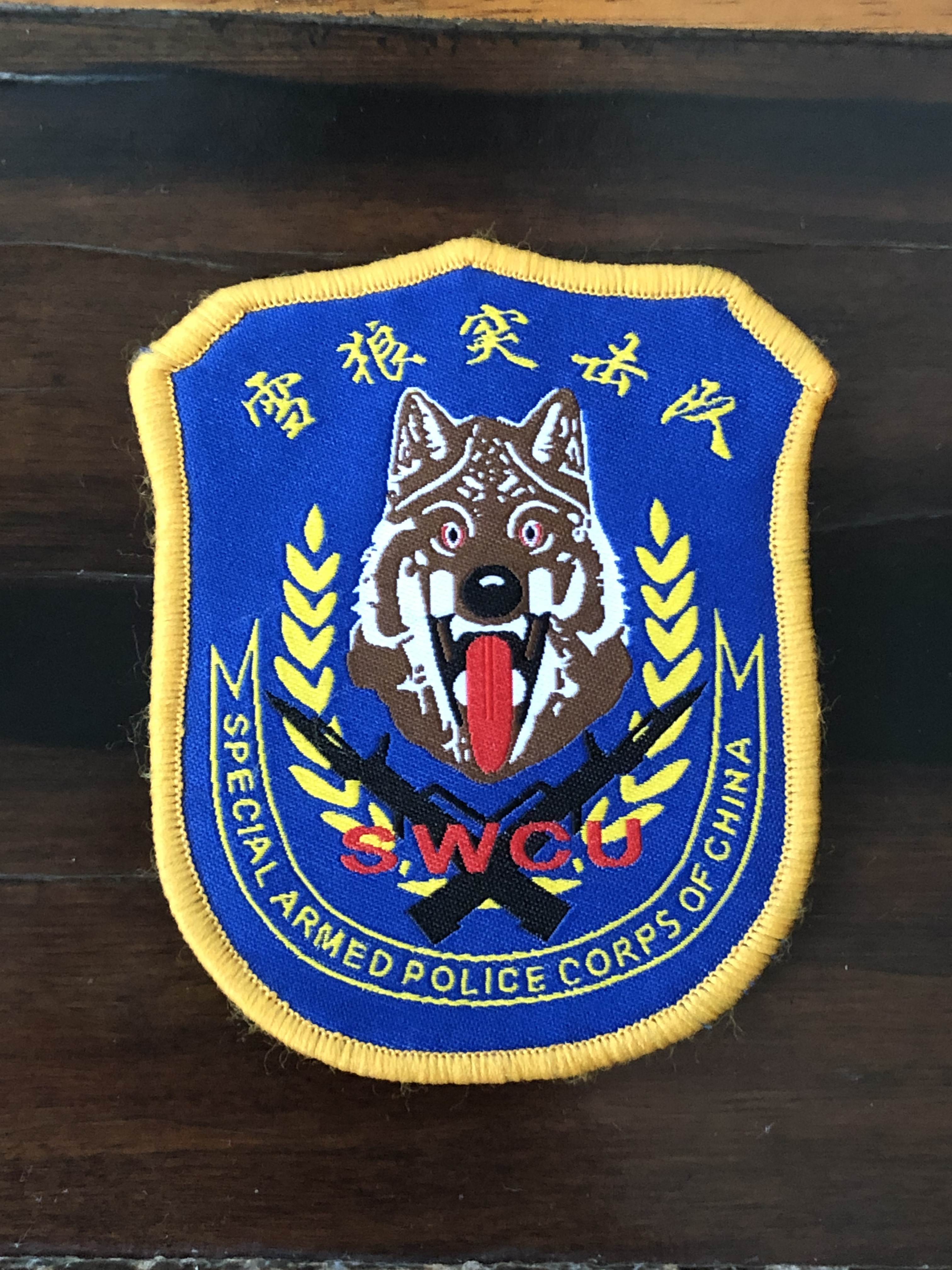 One of the patches used by the Snow Wolf Commando Unit before it was changed.